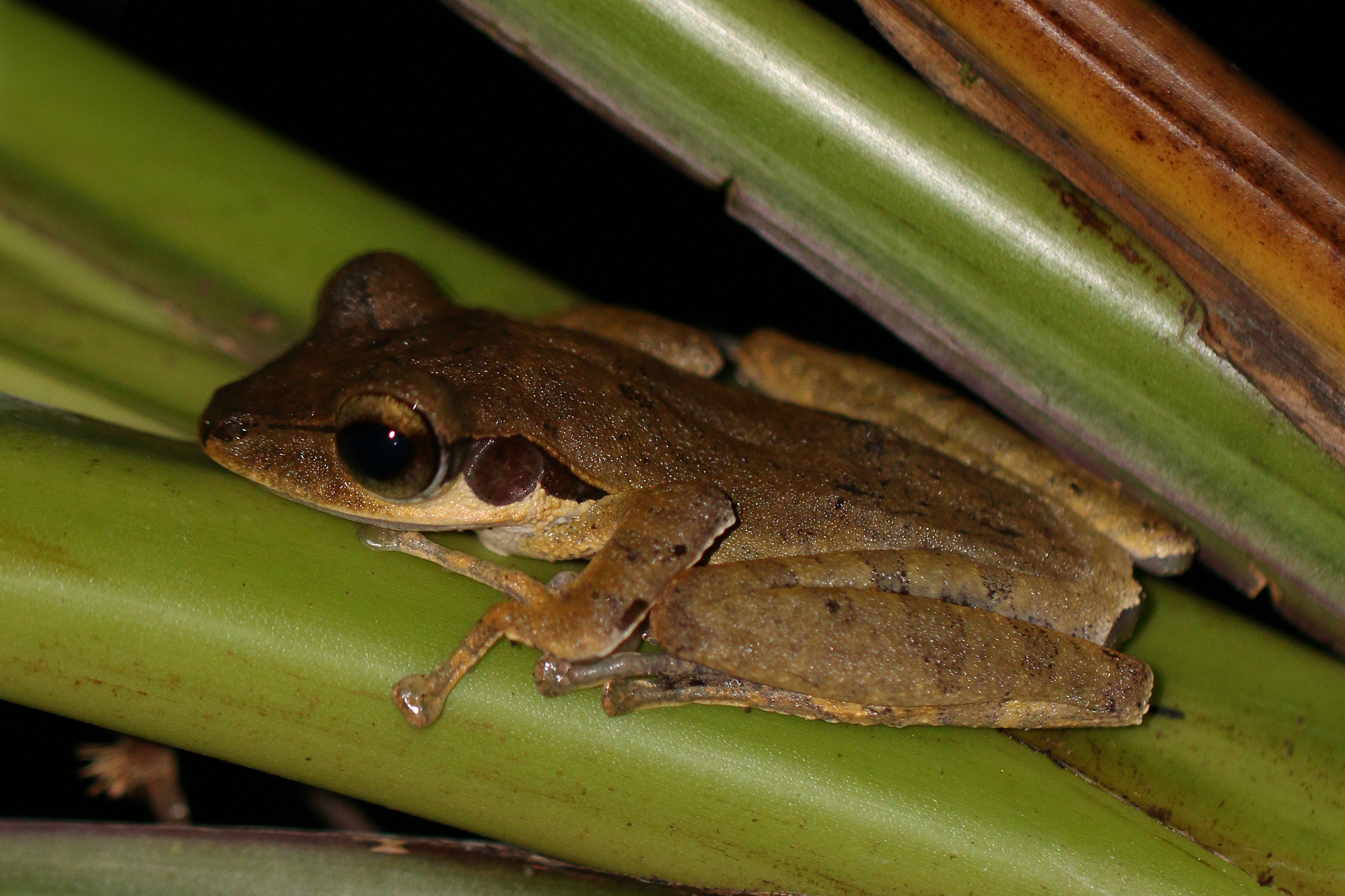 Dark-eared frog (Polypedates macrotis), Danum Valley, Sabah, Borneo